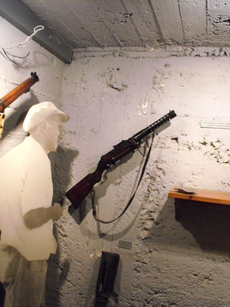 Geography of Israel